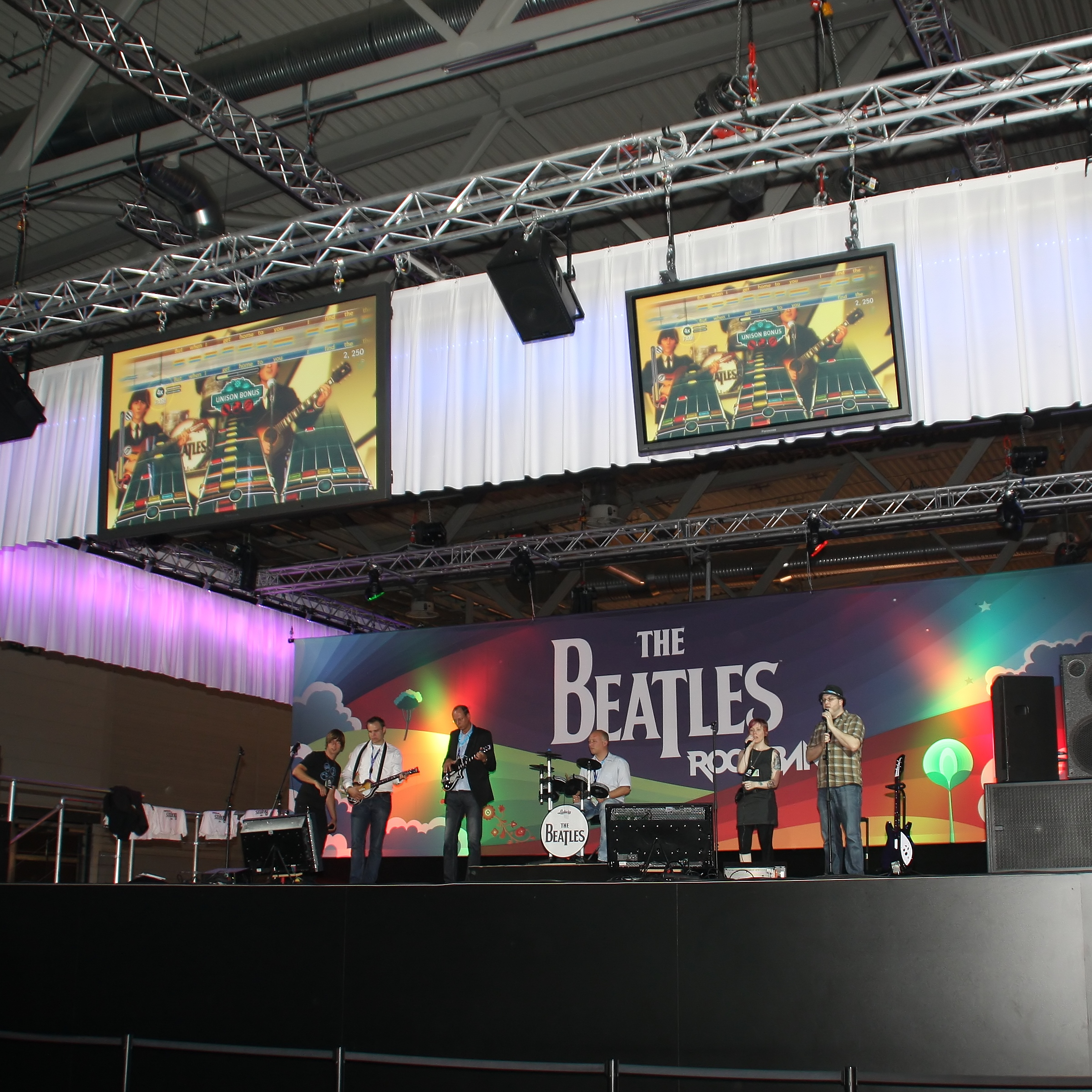 Booth for the video game The Beatles: Rock Band on the Gamescom 2009, Cologne, Germany.